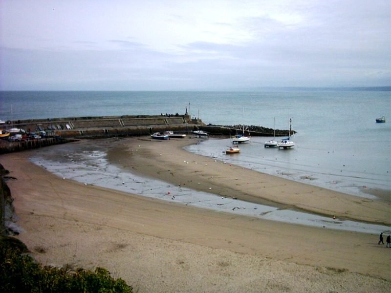 Overlooking the harbour at New Quay, Ceredigion, Wales. Taken by myself in 2005. Public domain.